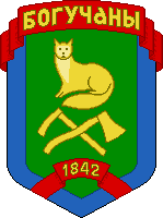 Coat of arms of Boguchany